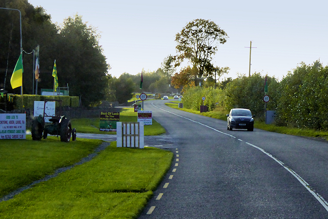 R154 passing Kiltale Hurling and Camogie Club